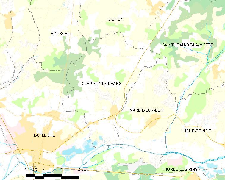 Map of French municipality